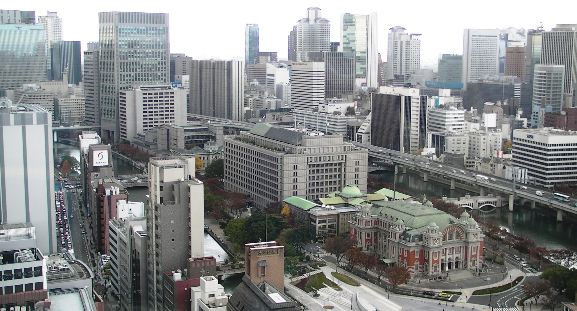 Skyline in Osaka.rightside is Umeda,Leftside is Nakanoshima.From Kitahama.There are over 40 Skyscrapers in this area.